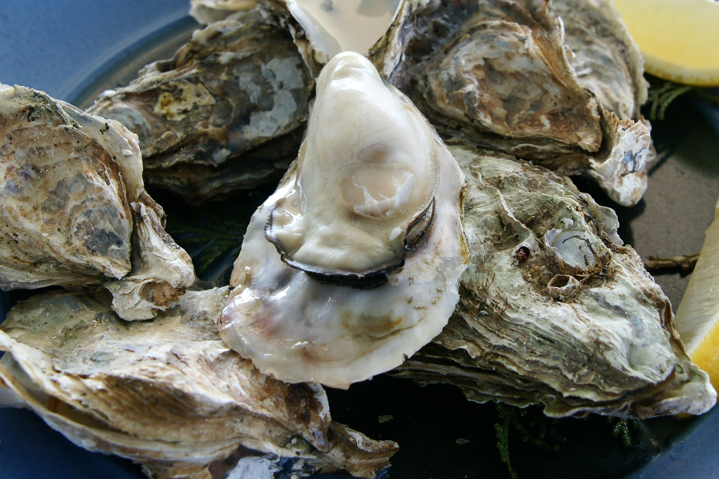 Baked oysters, at Ushimado, Japan